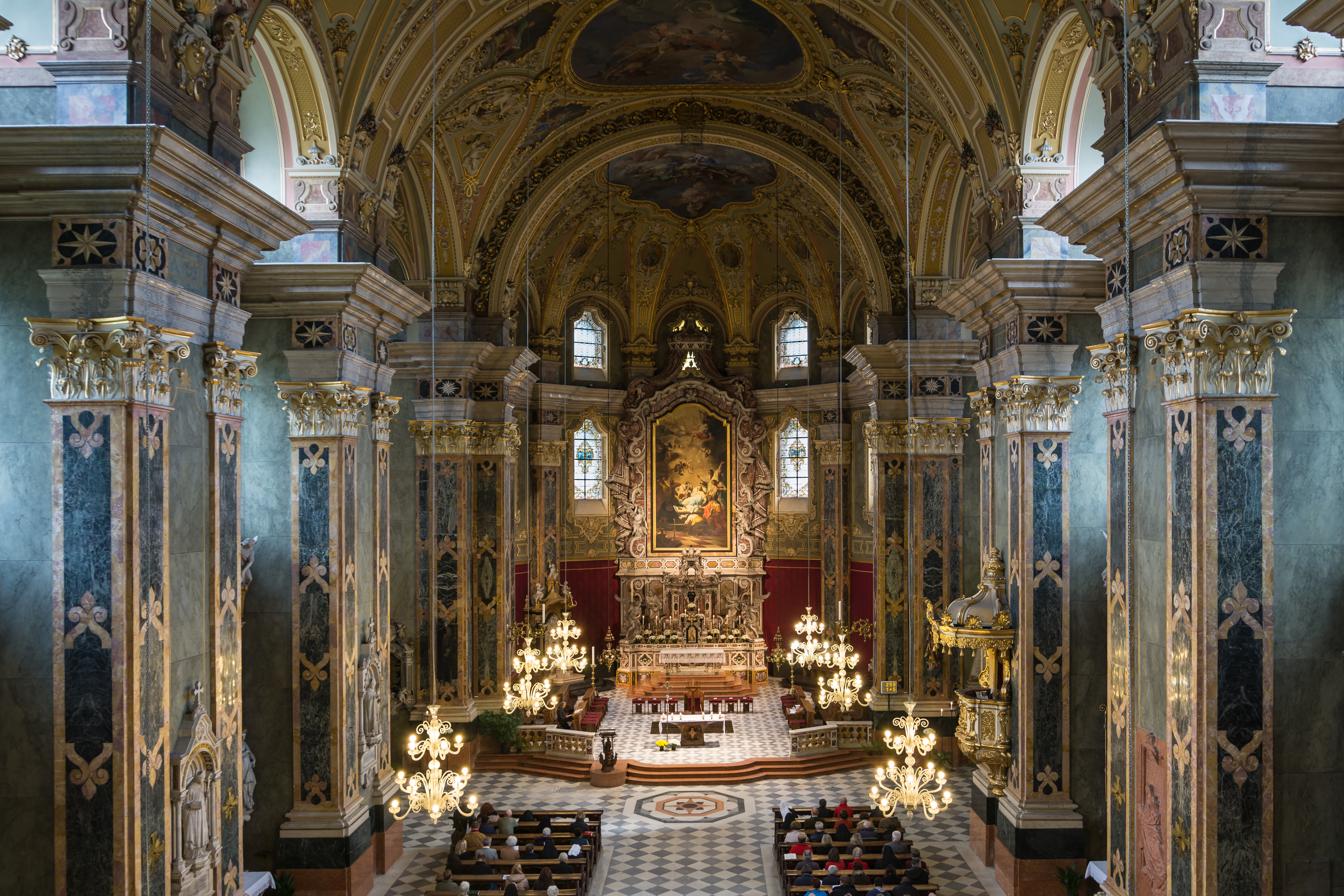 Interior of Brixen Cathedral, South Tyrol. The parish is gathered for Sunday worship.